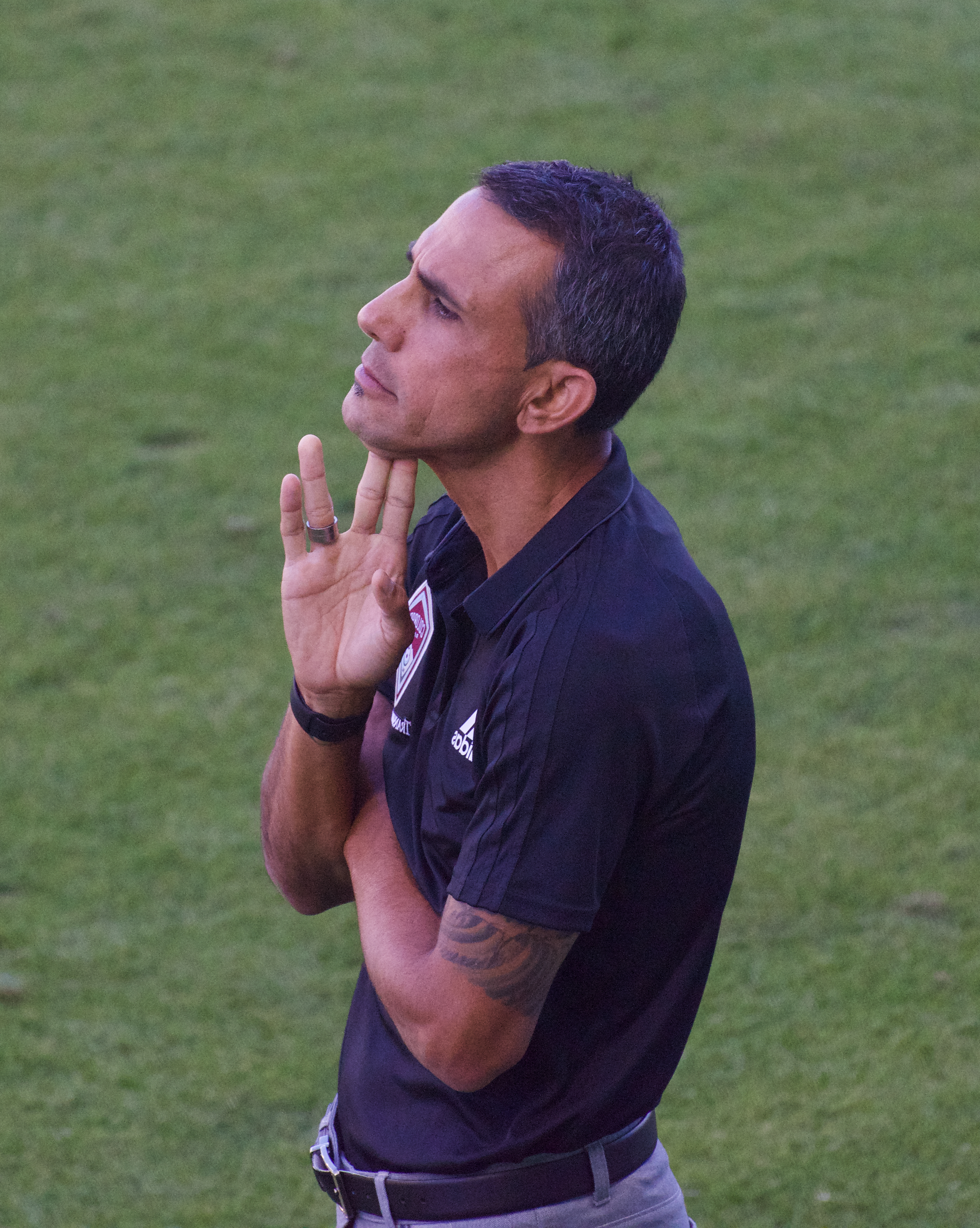 Pablo Mastroeni coaching the Colorado Rapids at a game vs San Jose Earthquakes, Avaya Stadium, 2017-07-29